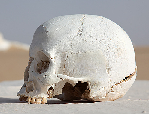 Skull in the White desert, Western desert, Egypt